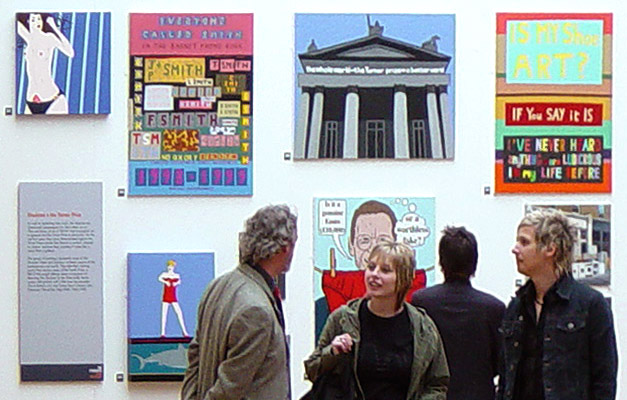 The Stuckists Punk Victorian show at the Walker Art Gallery for the 2004 Liverpool Biennial.Wall of paintings on Tate and Turner Prize. Paintings by David Beesley, Charles Thomson, Rachel Jordan and Matthew Robinson.